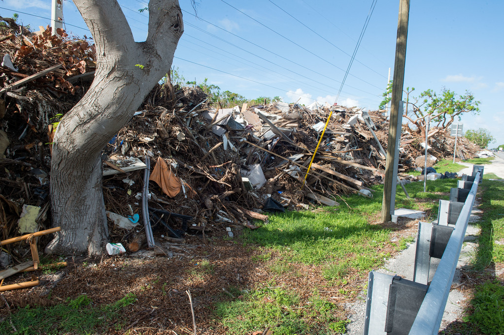 Piles of collected debris line the side of Overseas Highway in Monroe County (Upper Matecumbe Key), Florida on Tuesday, Oct. 10, 2017. Photo by J.T. Blatty / FEMA